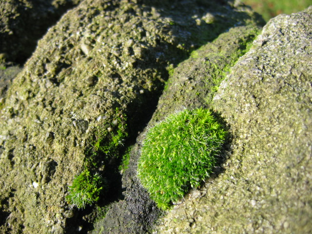 Moss on a dry stone wall